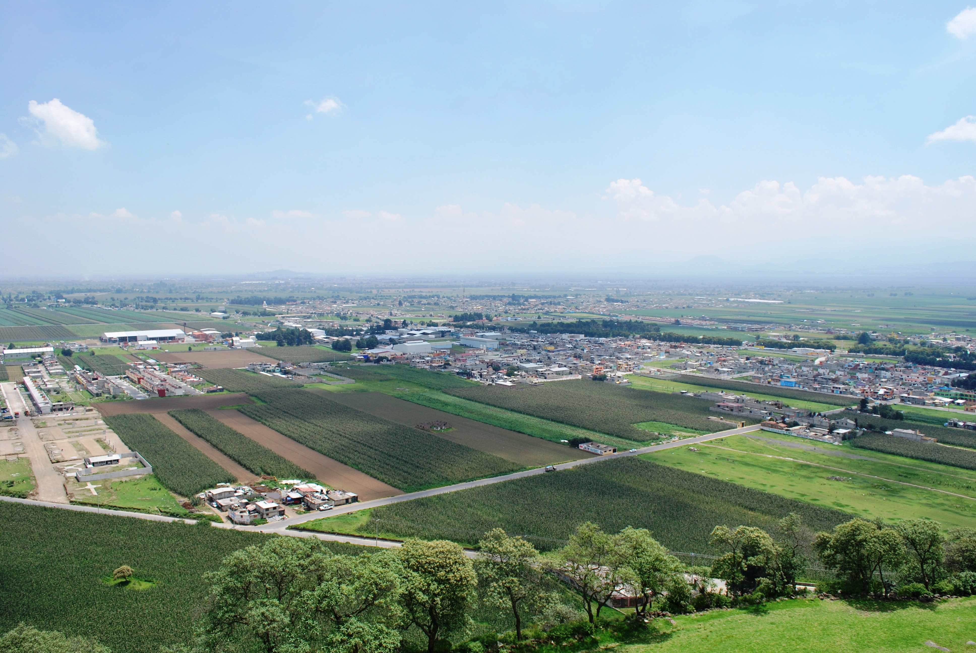 Looking over the southern portion of the Valley of Toluca from Teotenango, Mexico State